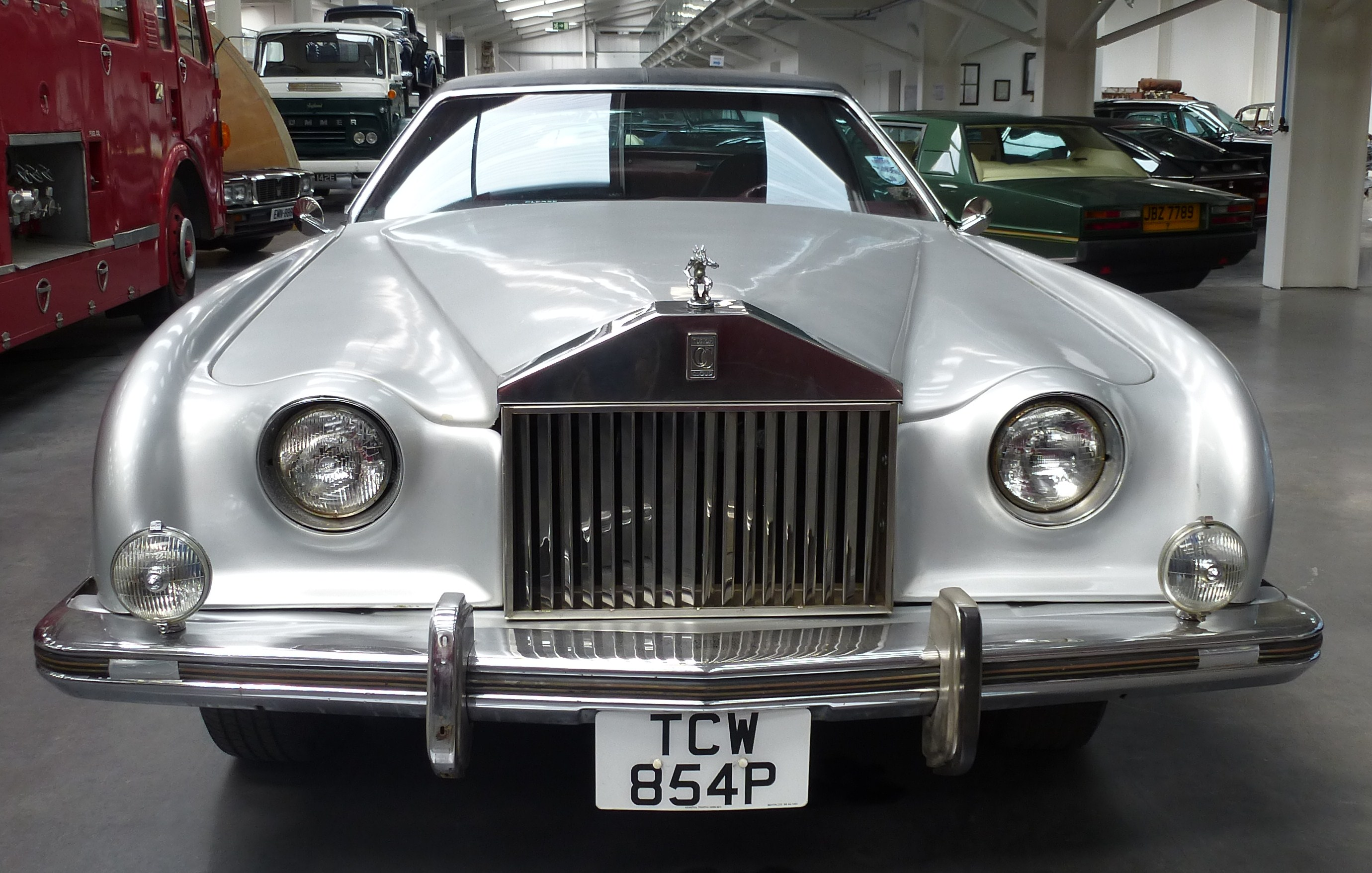 Custom Cloud von 1975